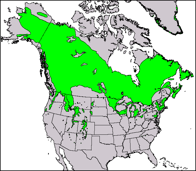 This North American range map of Juniperus communis, the common juniper, was published in a USGS publication: Conifers. Climate-Vegetation Atlas of North America. USGS. Maps and ArcView shapefiles can also be downloaded here: Little, Jr., Elbert L. Atlas. USGS.[dead link]